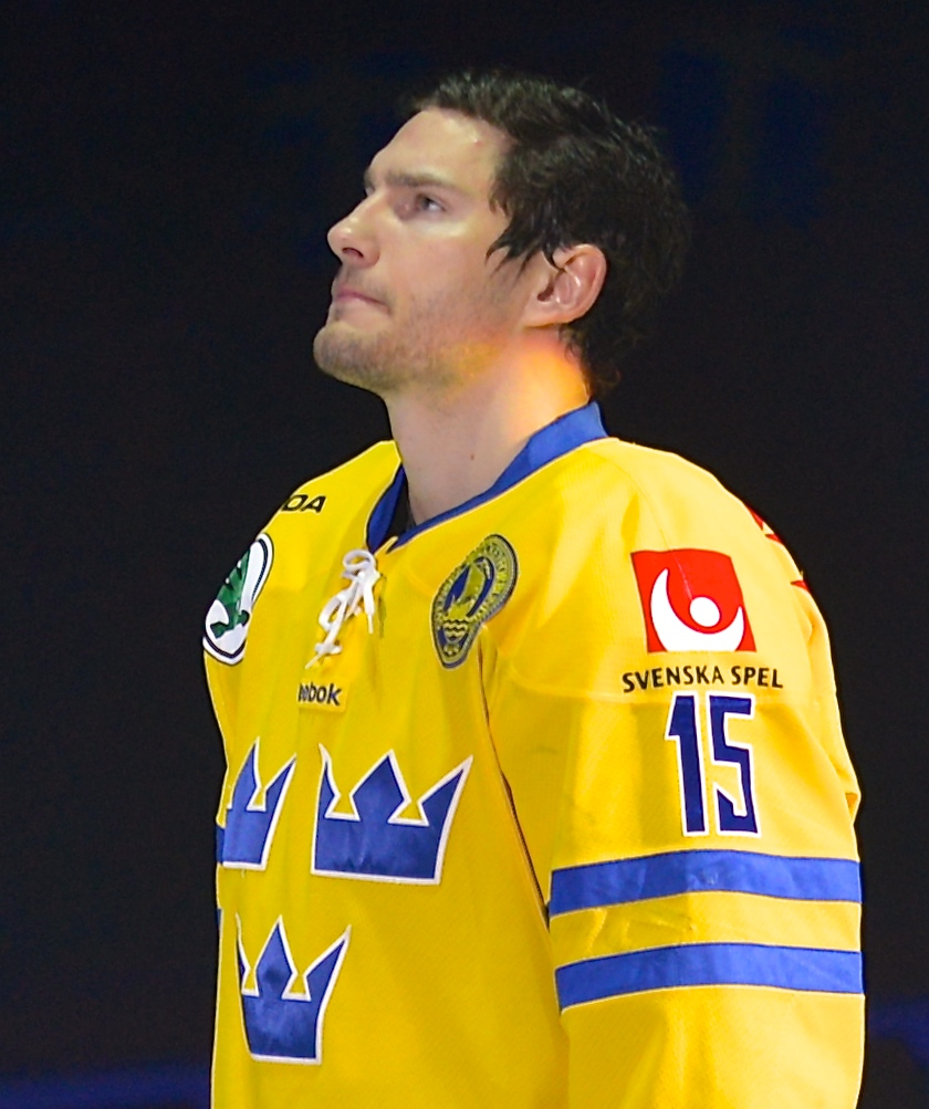 Mattias Sjögren during Oddset Hockey Games against Russia (2-0) at the Ericsson Globe in Stockholm on May 4th, 2014.